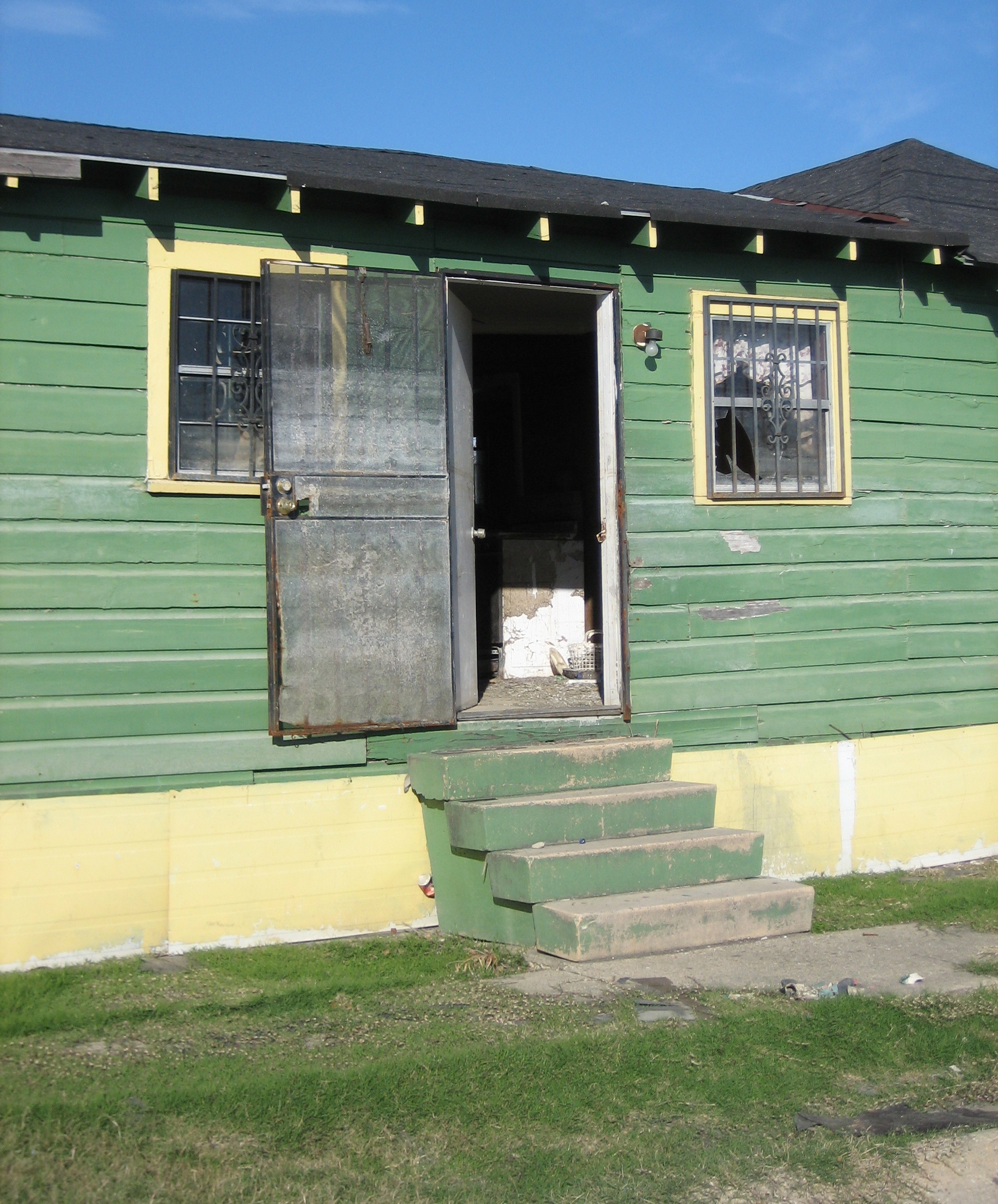 New Orleans after Hurricane Katrina: Flood damaged house, Desire neighborhood, Upper 9th Ward. Note water level lines still visible on house and especially on screen door.